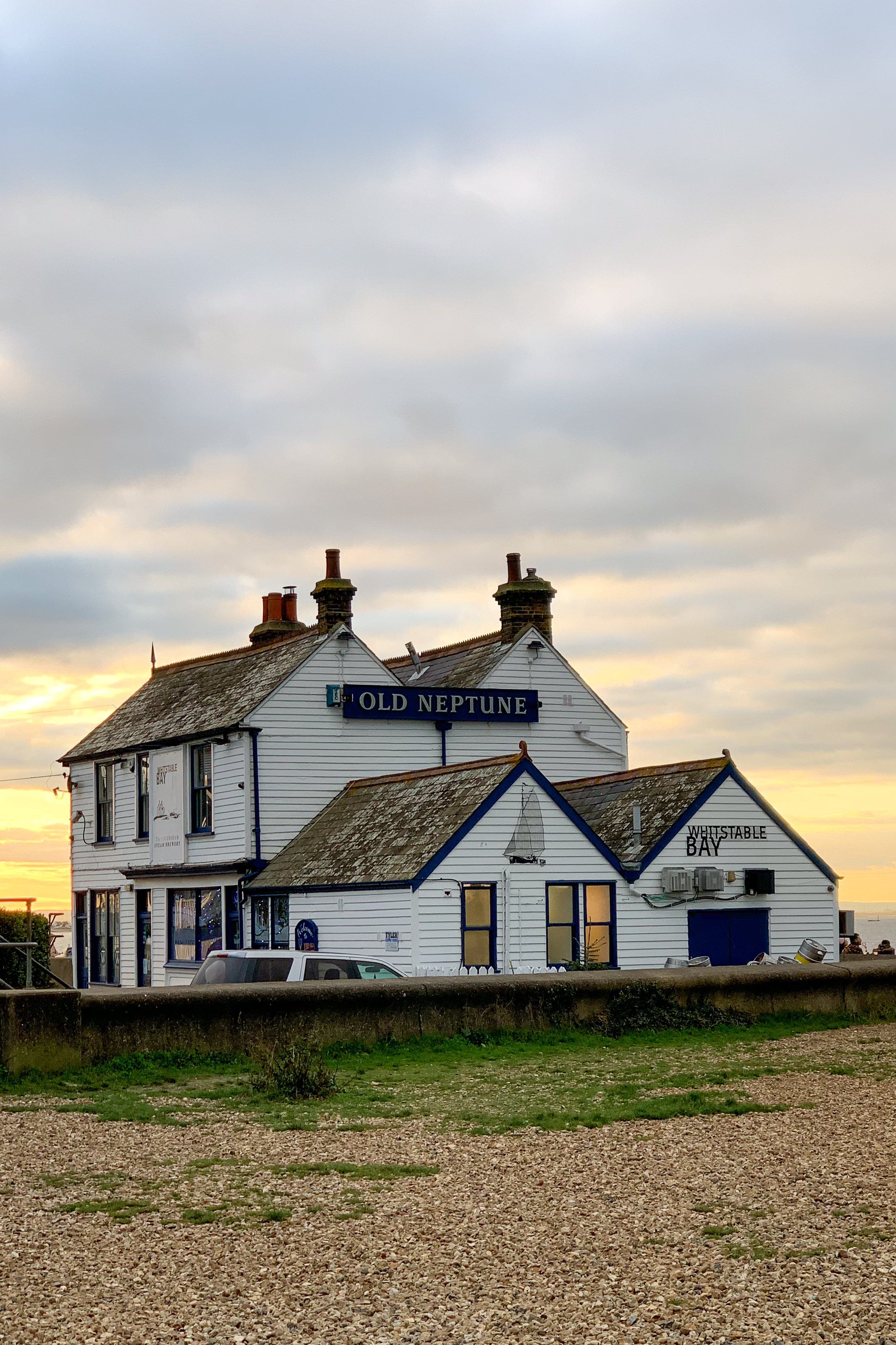 The Old Neptune (affectionately named "Neppy") public house on Whitstable seafront. It dates from the Victorian era.